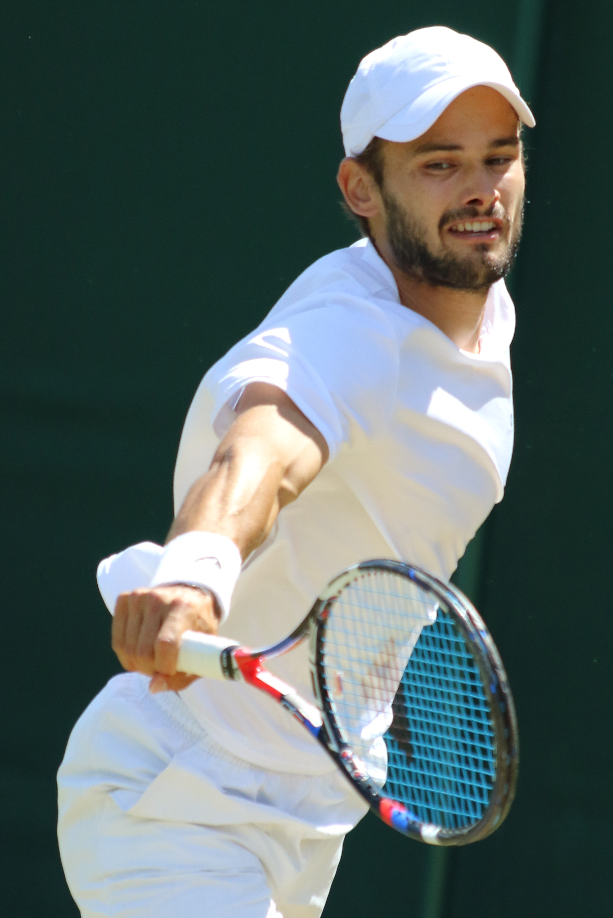 Nys WM17 (30)